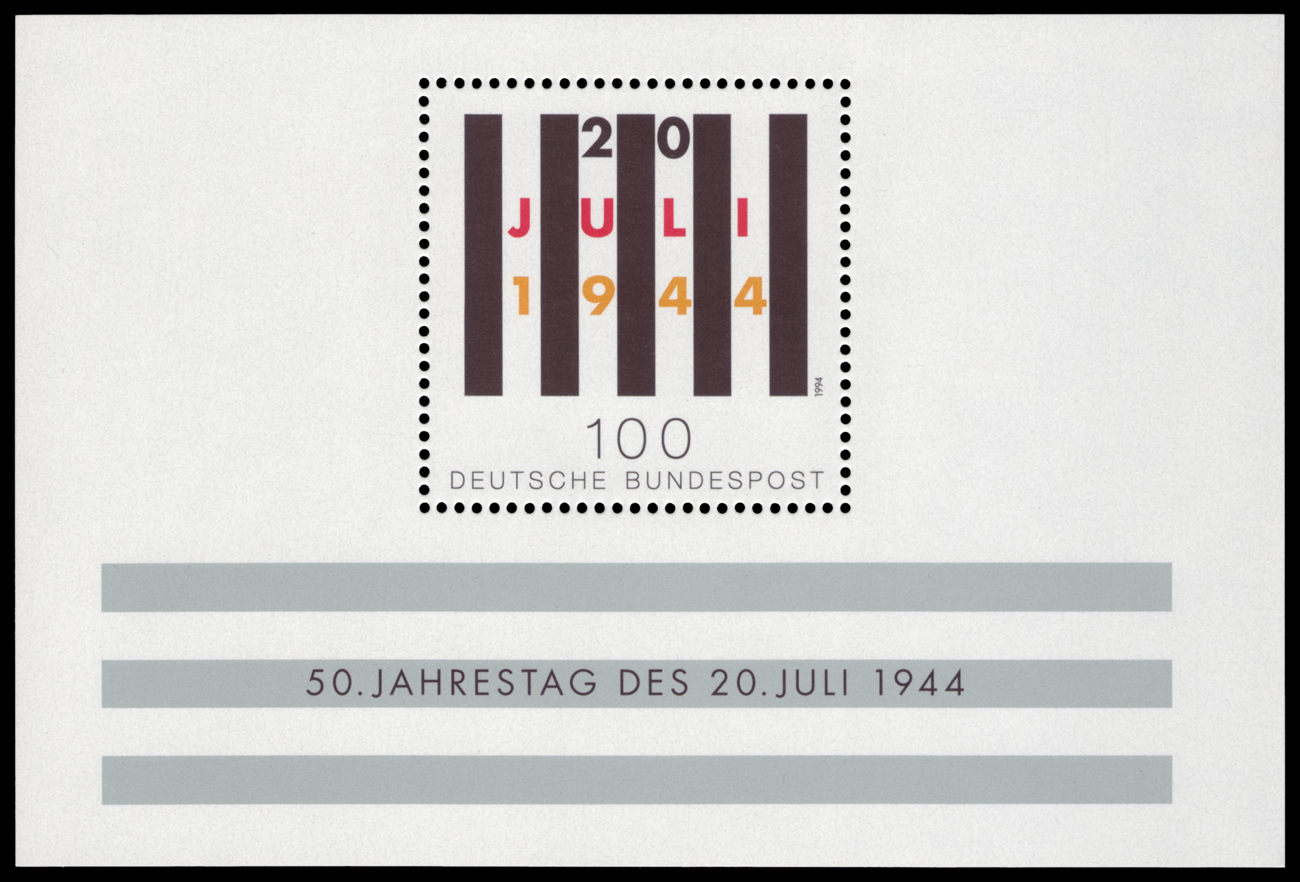 50 years of the 20 July plot against Adolf Hitler